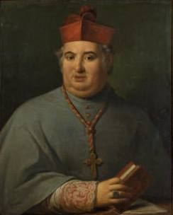 Antonio Francesco Orioli, cardinal secretary of state